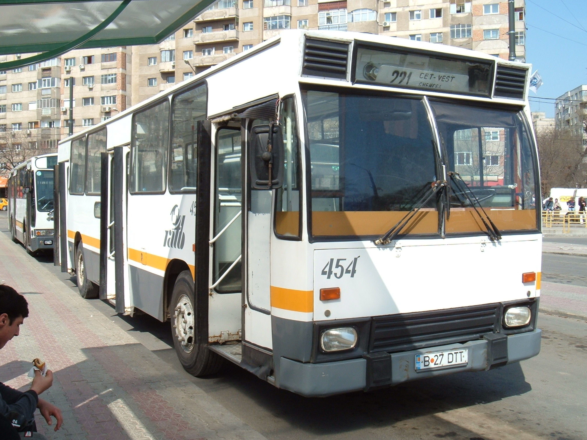 Public bus in Bucharest, Romania (DAC 112 UDM type). Year built 1990.